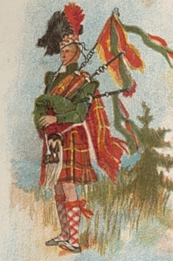 A drawing of a Scottish piper showing the dress in 1840